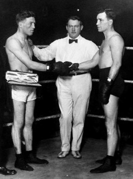 Ted "Kid" Lewis shaking hands with Jack Britton before bout at Madison Square Garden, New York.